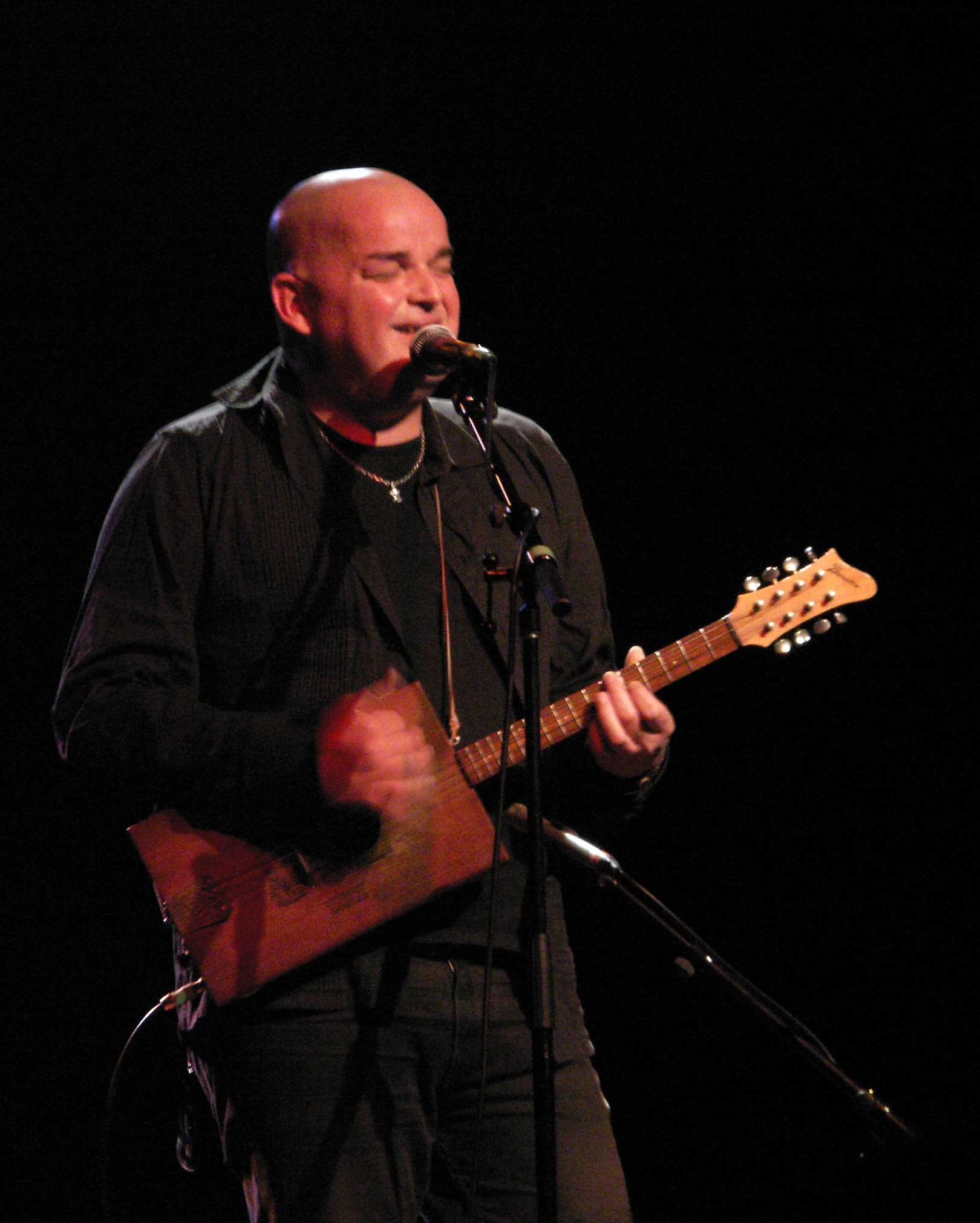 Alain Johannes, guitarist for Queens of the Stone Age, Them Crooked Vultures and formerly of Eleven, opened for Fistful of Mercy at The Showbox, Seattle, Washington. Alain played this cigar box guitar for all but the last song in his set. For the last song he used a 12 string guitar.